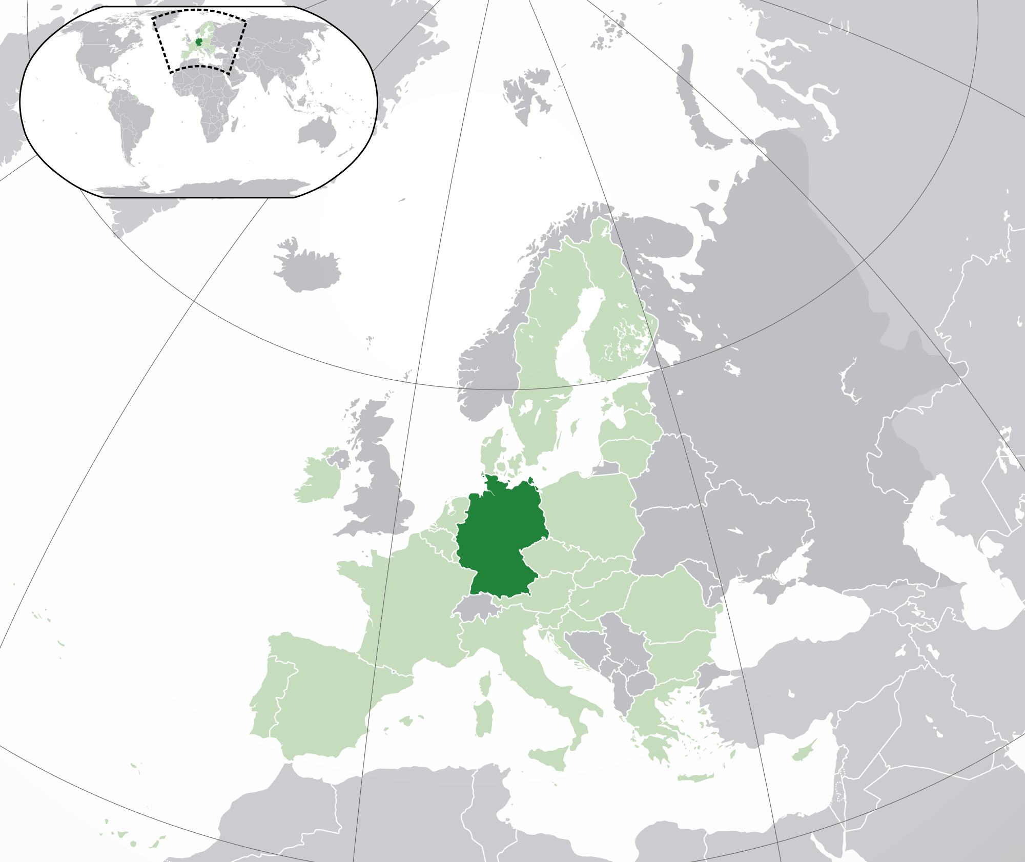 Location map: Germany (dark green) / European Union (light green) / Europe (dark grey); inspired by and consistent with general country locator maps by User:Vardion, et al.